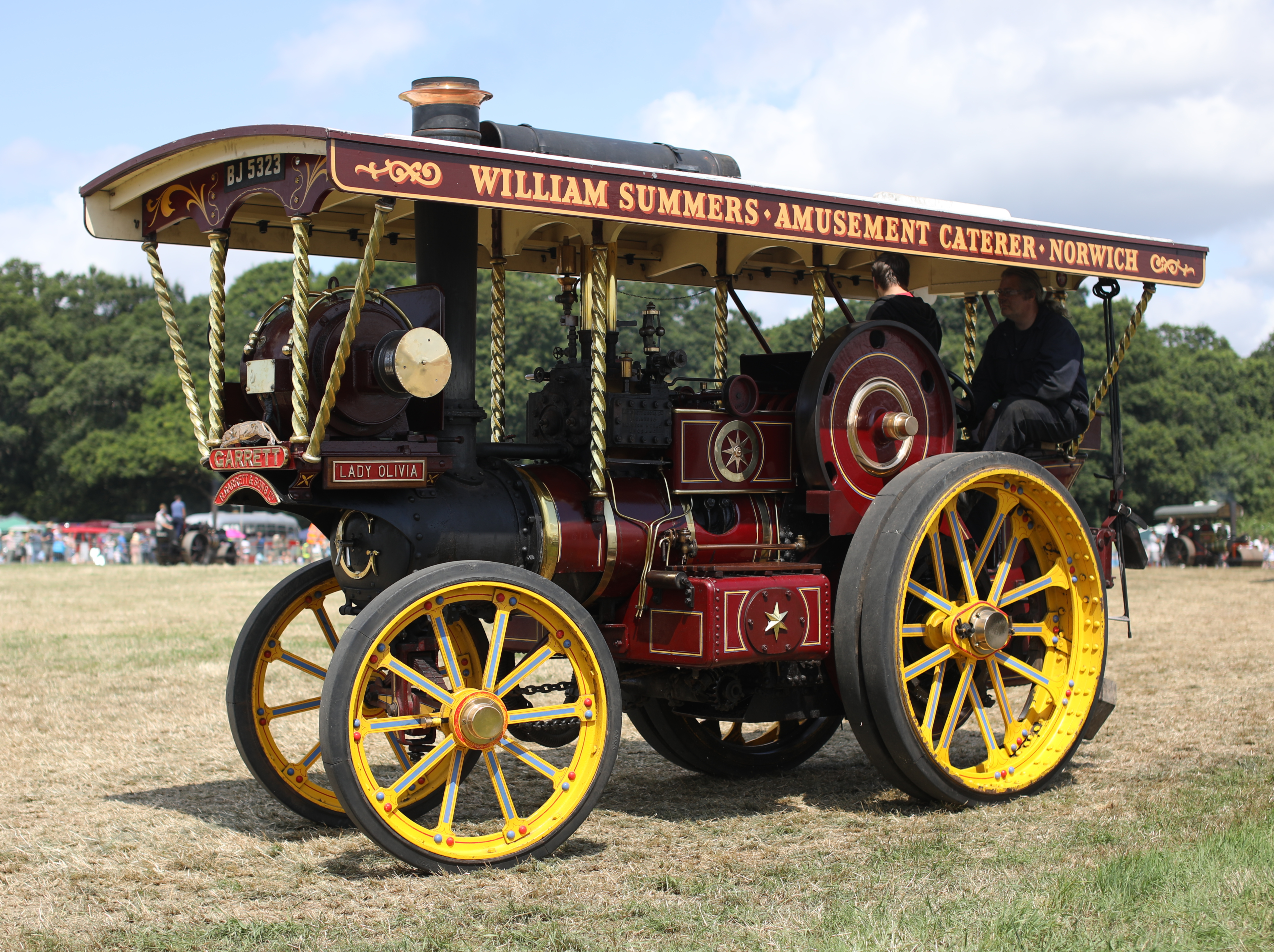 Photo of the Garrett Showman's engine "Lady_oliva" Netly Marsh Steam and Craft Show program No 6